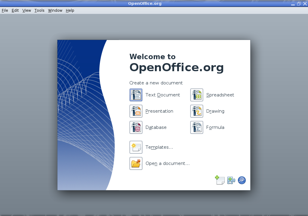 3.0 Splashscreen on GNU/Linux